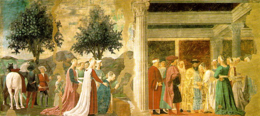 PIERO della FRANCESCA Adoration of the Holy Wood and the Meeting of Solomon and the Queen of Sheba c. 1452 Fresco, 336 x 747 cm San Francesco, Arezzo